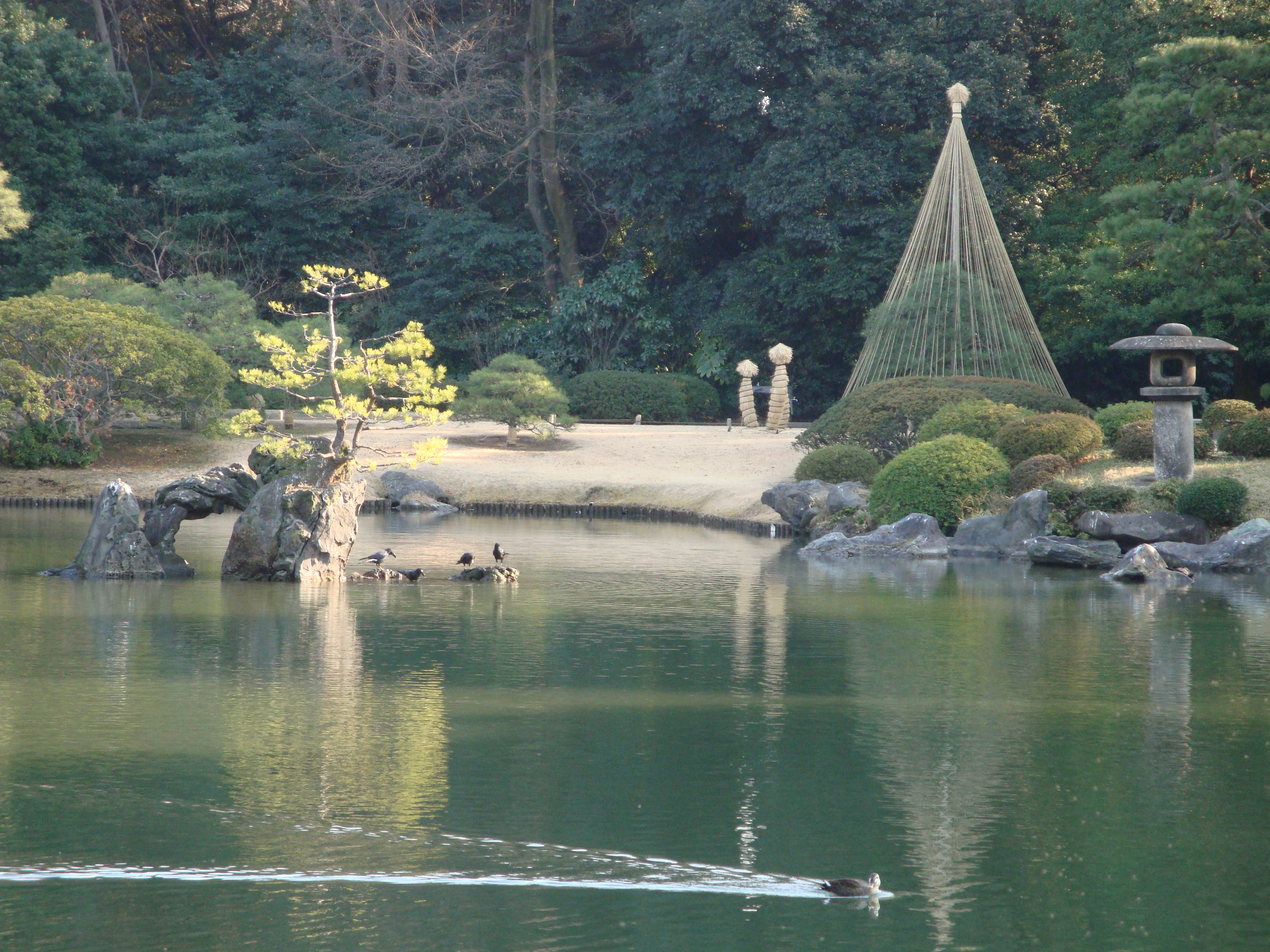 Horaijima island in Rikugien